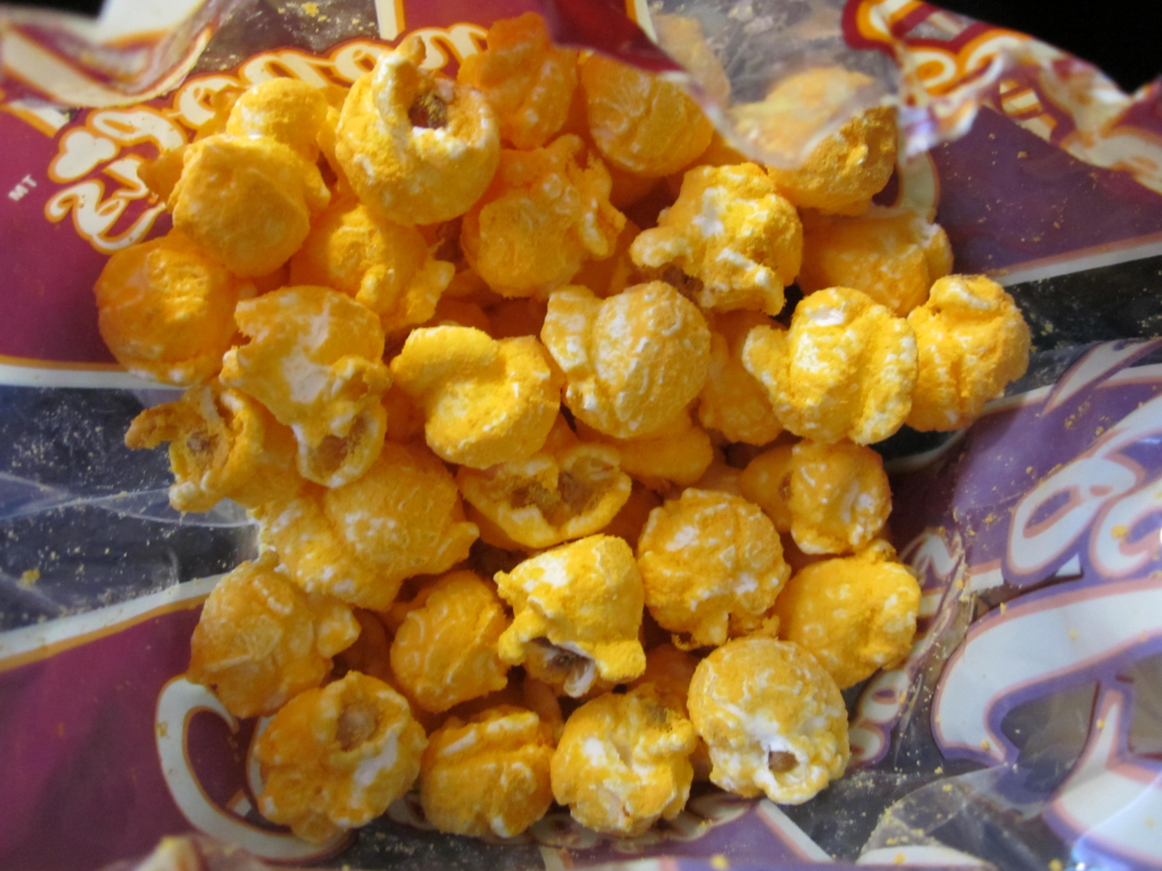 Popcornopolis cheddar cheese popcorn